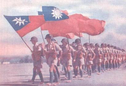 In August, 1942, the Chinese Army in India was officially formed. General Stilwell, Chief of staff in the China Theatre, was appointed Commander-in-Chief, with General Lo Cho-ying as his deputy.